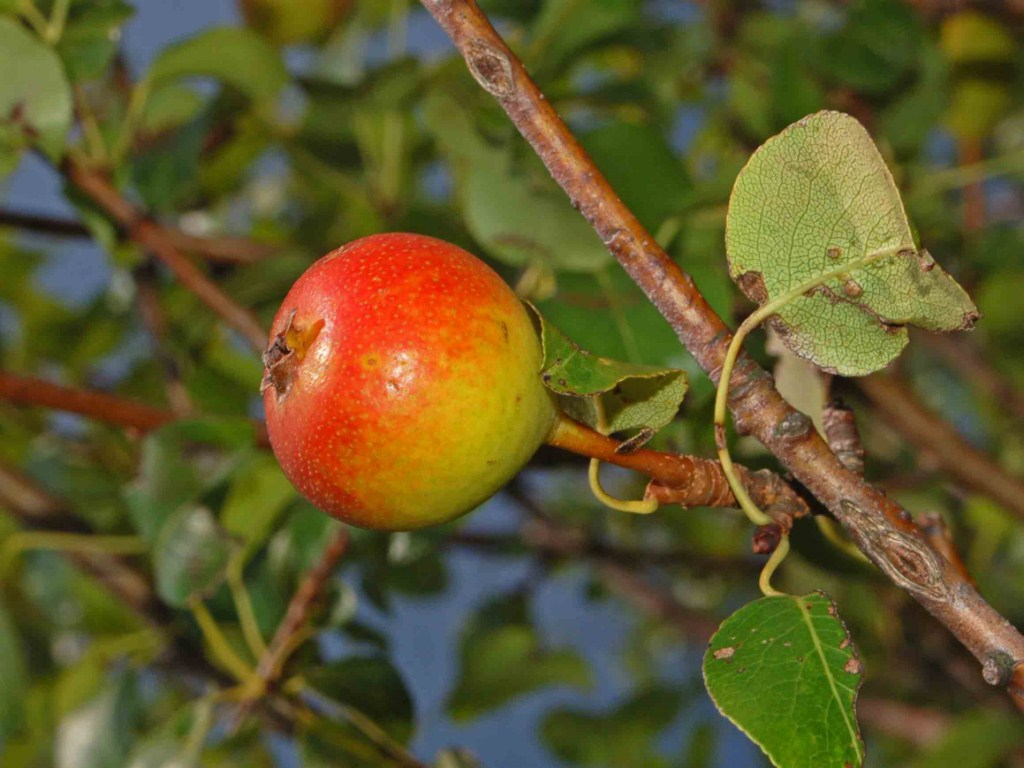 Pyrus pyraster - Parco dell'Antola, Genova, Italy